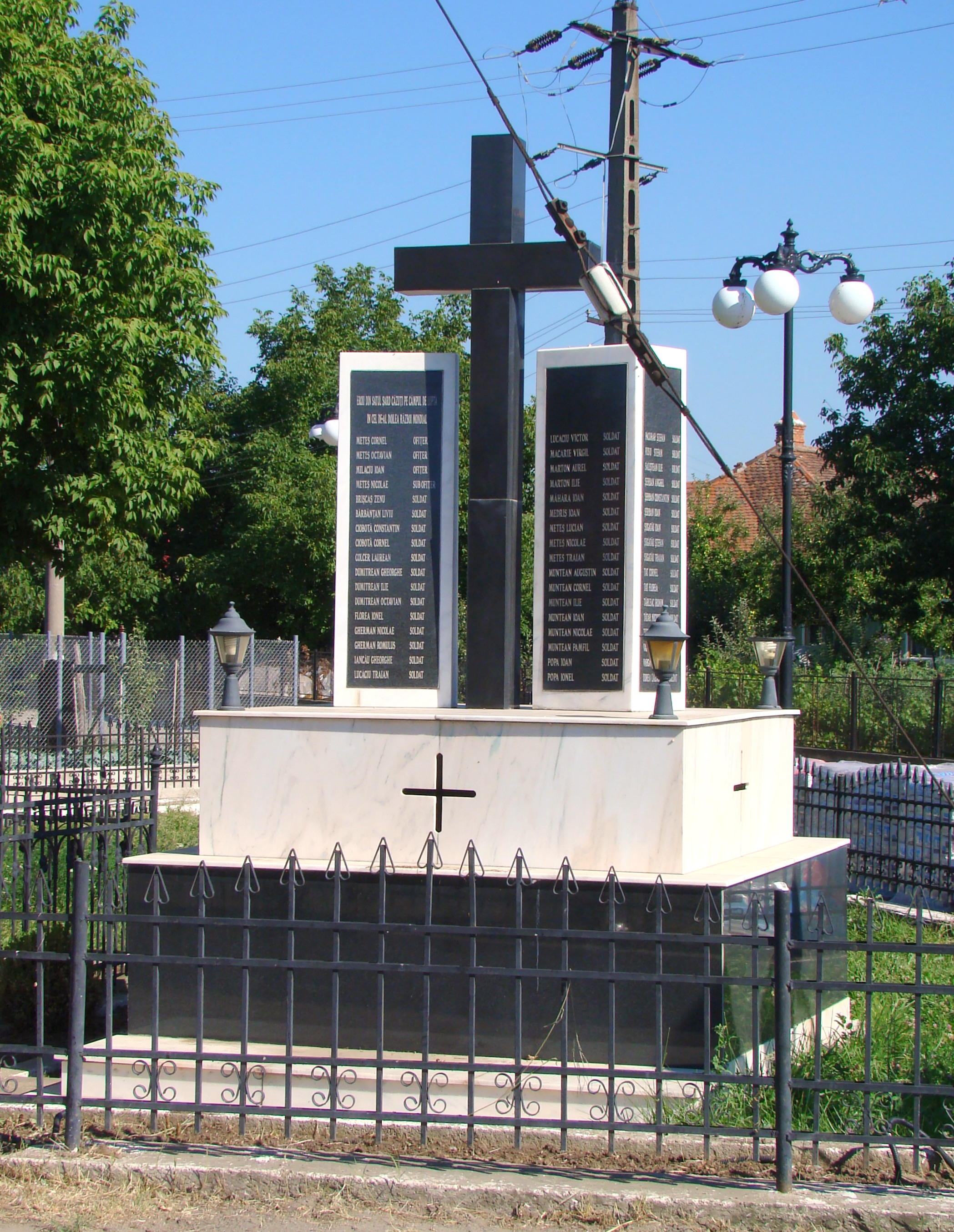 Șard, Alba county, Romania